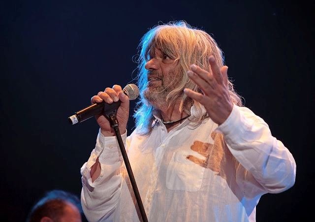 László Földes.